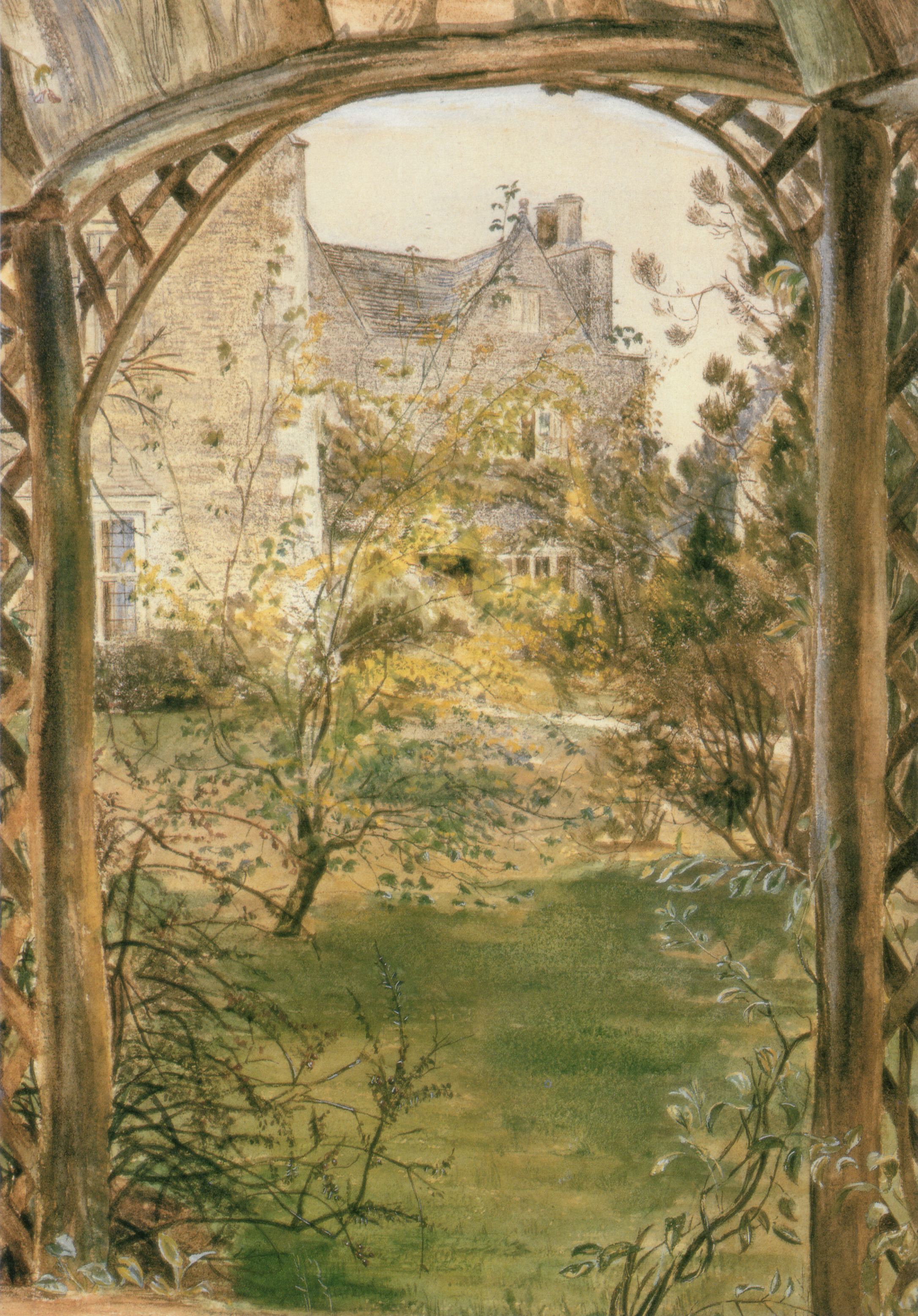 Kelmscott Manor by May Morris.